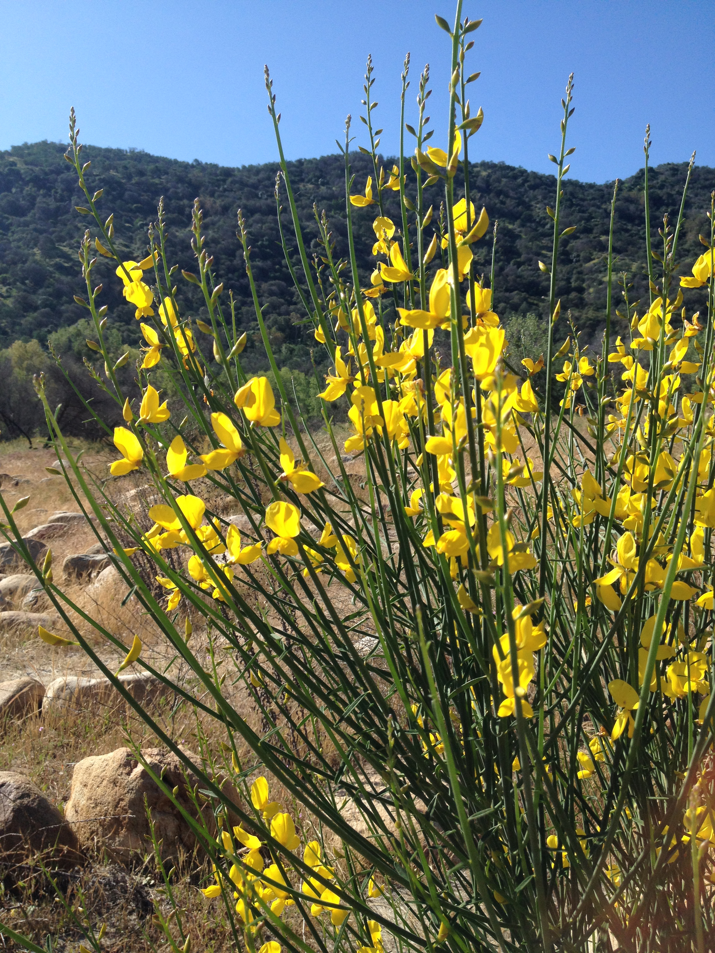 Spartium, or Spanish broom bush flowering